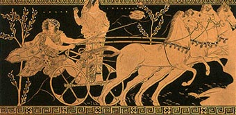 Hippodamia was a daughter of King Oenomaus and wife of Pelops with whom her offspring were Thyestes, Atreus, and Pittheus, Alcathous.